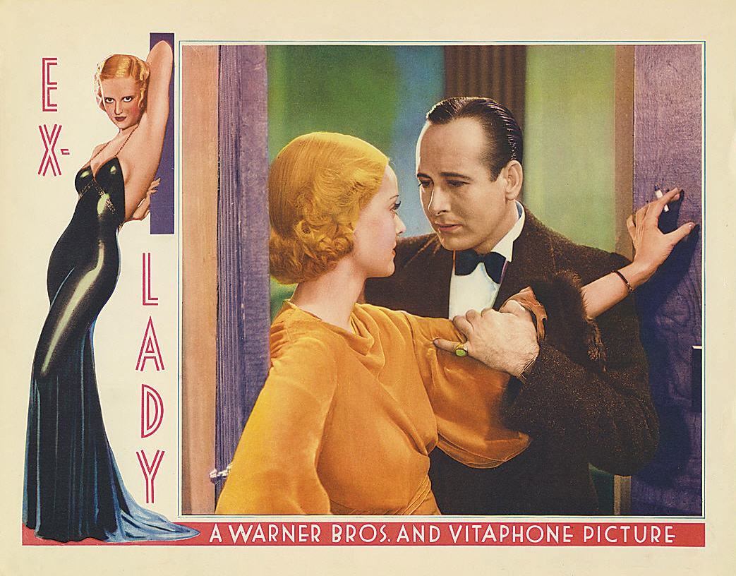 Lobby card for the American pre-Code drama film Ex-Lady (1933).